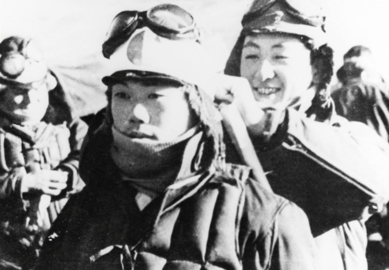 A young kamikaze pilot from the Imperial Japanese Navy receives a hachimaki before leaving for a suicide mission.